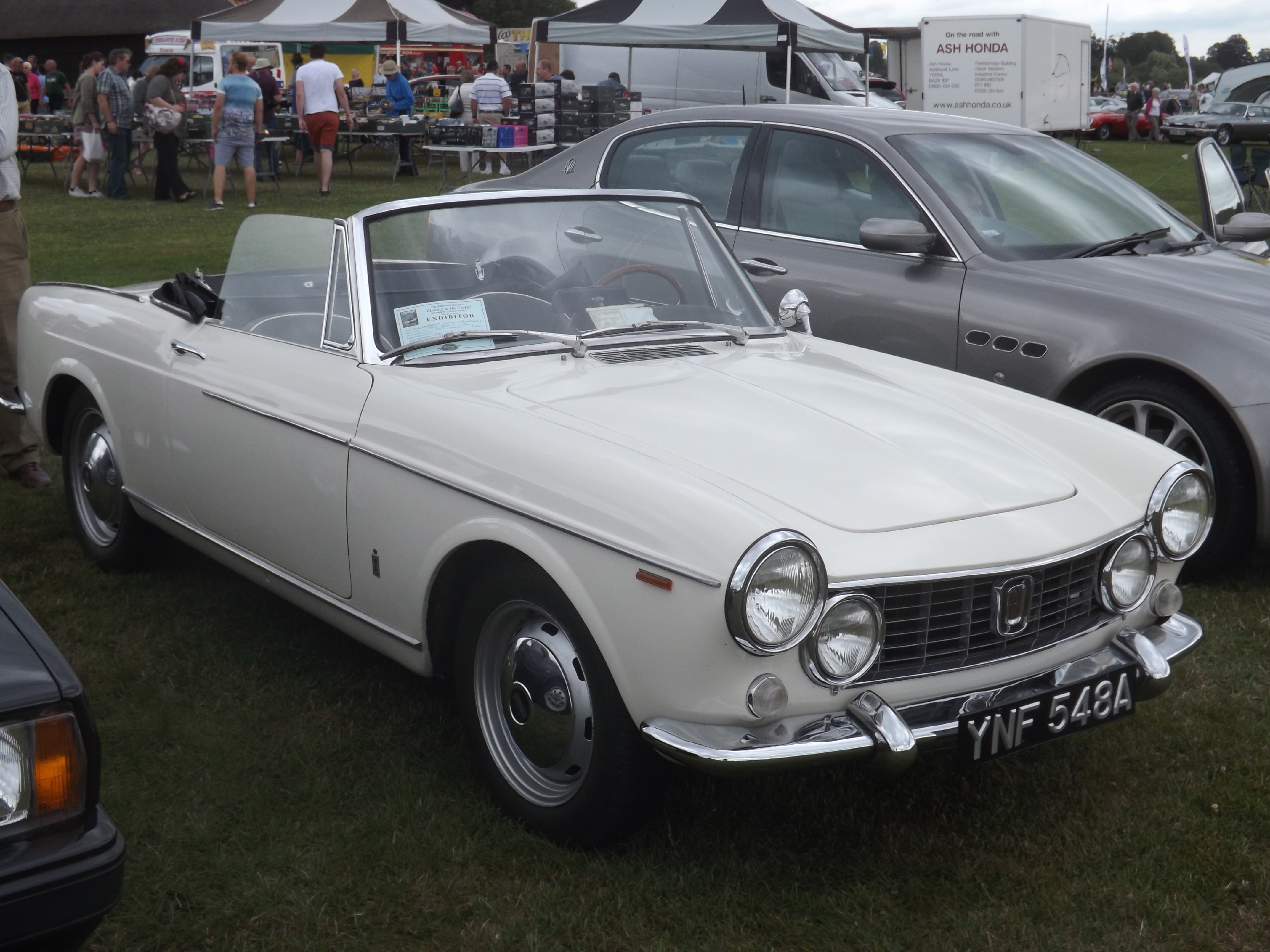 Classics at the Castle, Sherborne, 19th July 2015